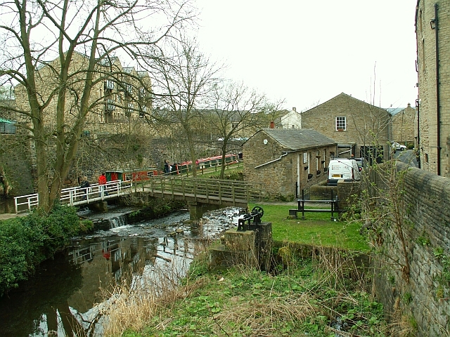 View from Back O The Beck. Looking down to the Eller Beck, which runs parallel here to the Springs Branch of the Leeds & Liverpool Canal (left). Between the two some people are crossing a white footbridge over a sluice, which controls the flow of water from canal to beck (see 1081474 ). On the near bank is another sluice, which was used to ensure a consistent flow from the Eller Beck in the days when mills downstream were powered by water. Further back on the grass is a redundant piece of sluice gear. The wooden footbridge across the beck was built in 1999. Some of the information for this description was found in a trail designed for children, but instructive for adults too